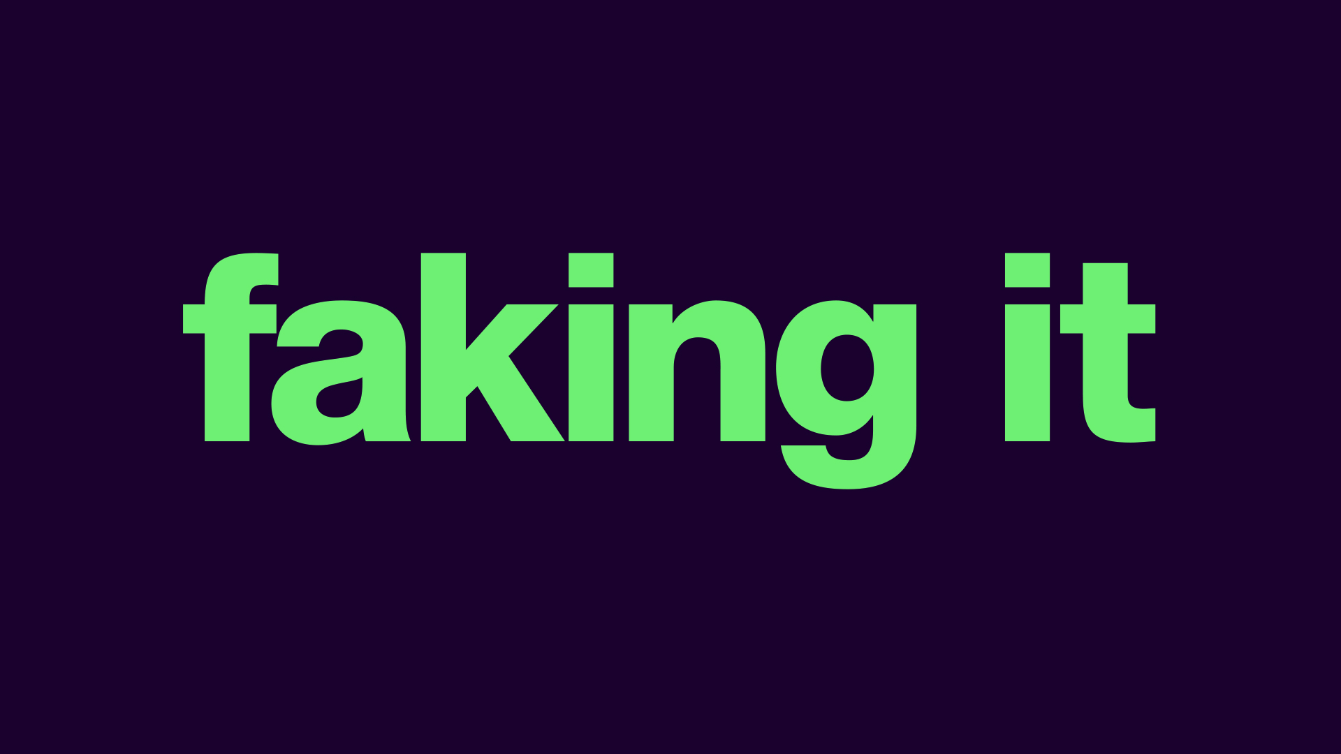 Logo of the American television series Faking It from MTV